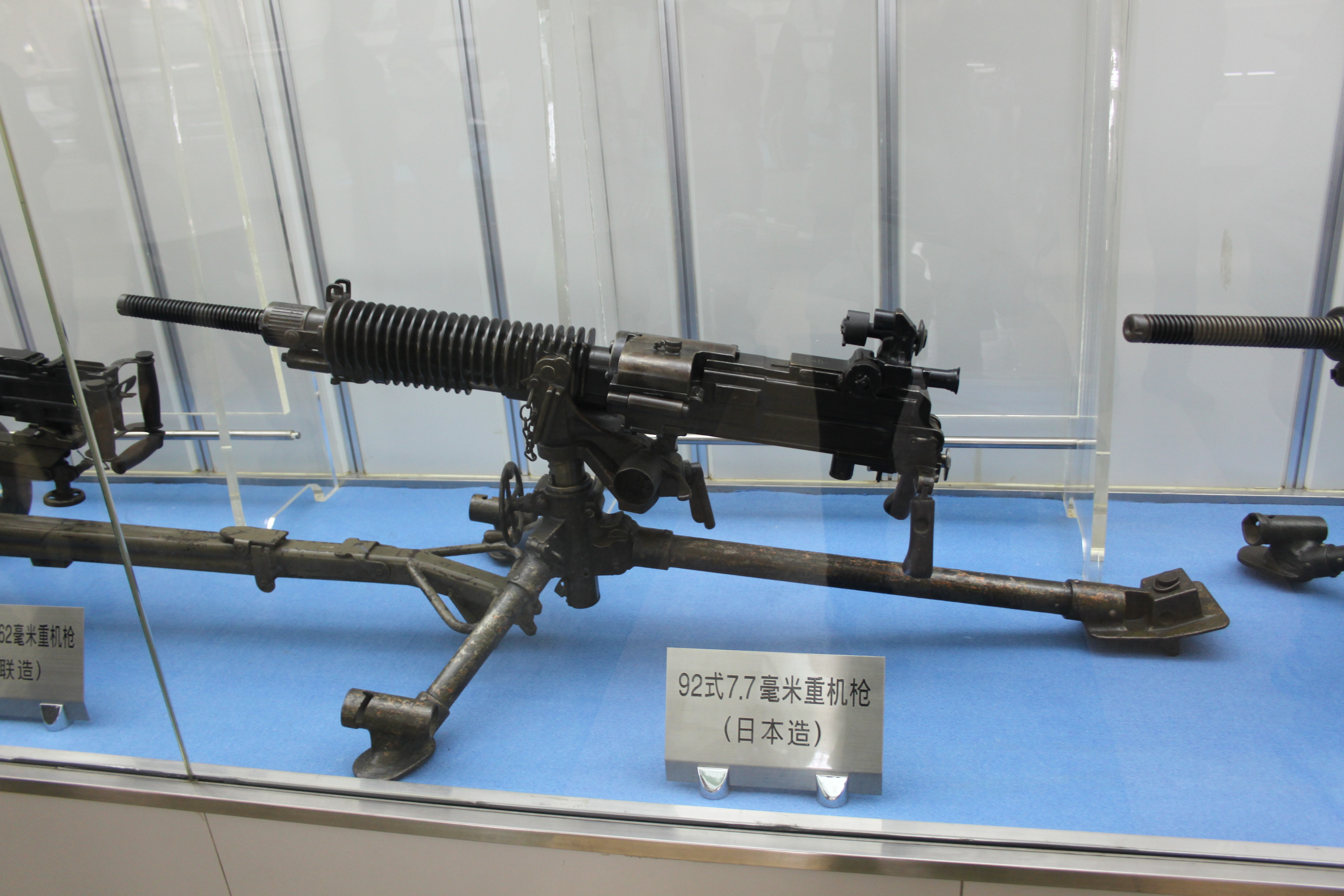 Military Museum: Modern Weapons, Small Arms Gallery. Complete indexed photo collection at .